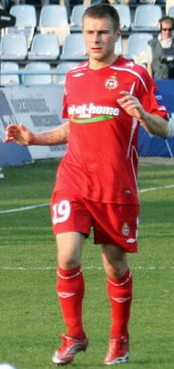 Patryk Małecki